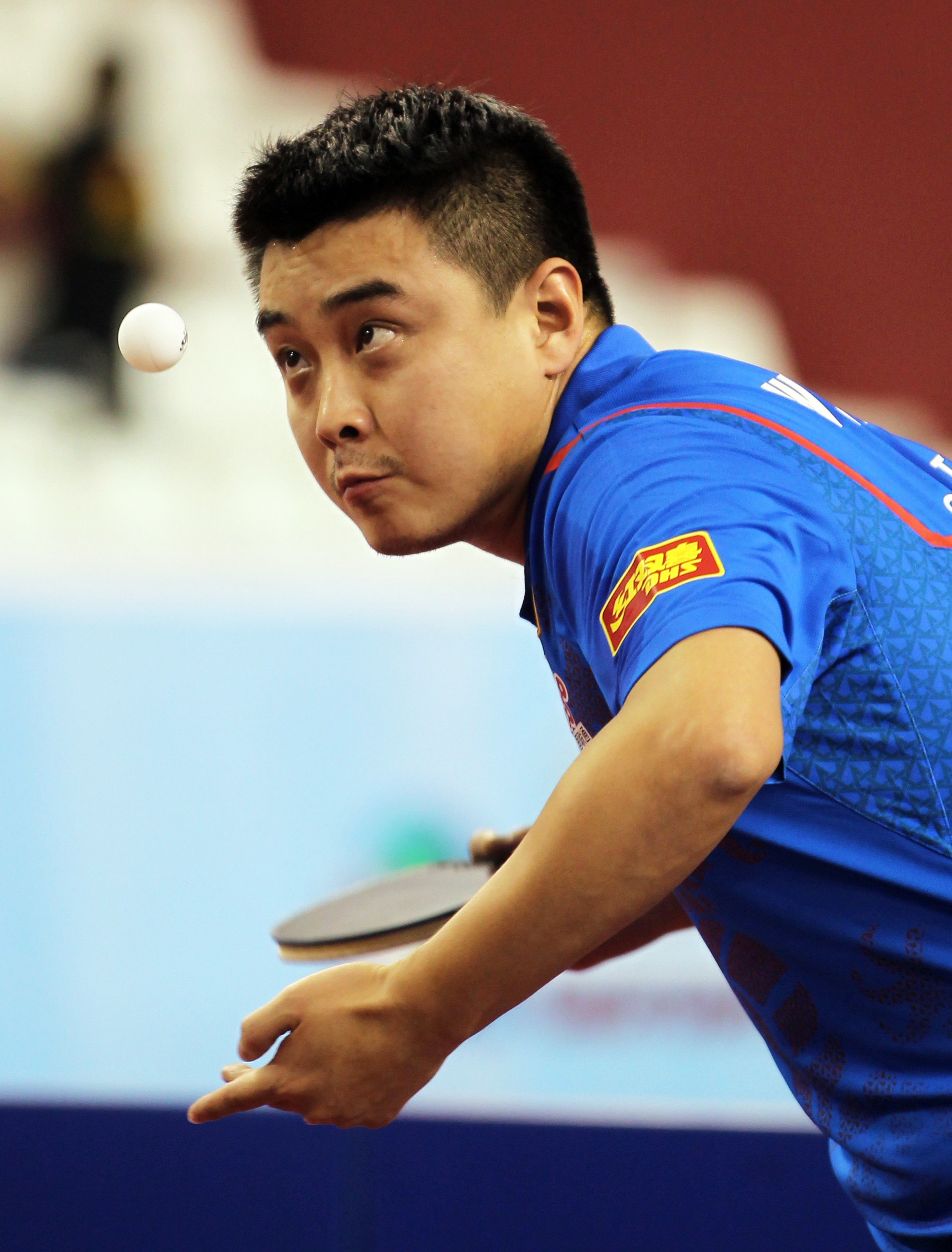 China's Wang hao serves against compatriot Xu Xin in the men's final of the Qatar Open table tennis at the Qatar Women's Sport Committee Indoor Hall